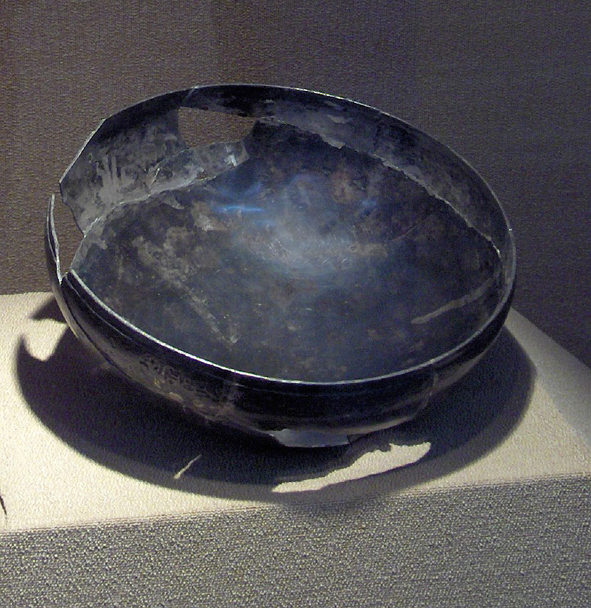 'Ankara Silver Bowl'; provenance : unknown; 15th c. BC (although some scholars give a later date); Museum of Anatolian Civilizations, Ankara, Turkey It shows a hieroglyphic inscription : "This bowl Samaya, the man of the Land of the Hatti, dedicated (?) for himself before King Maza-Karhuha, when Tuthaliya Labarna ( = Tudhaliyas II ?) smote the Land of Tarwiza. It in that year he made"